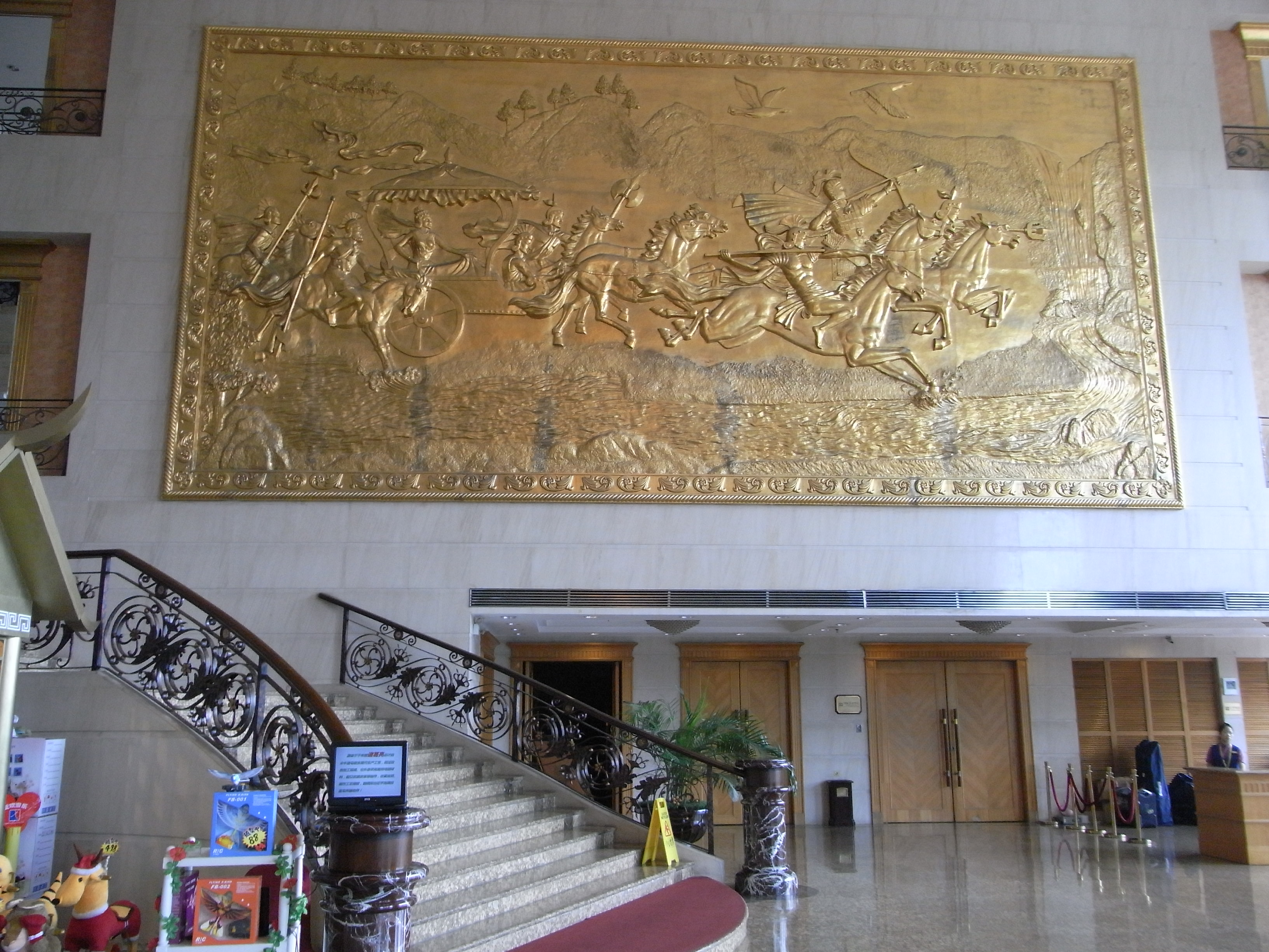 廣東 東莞太子酒店